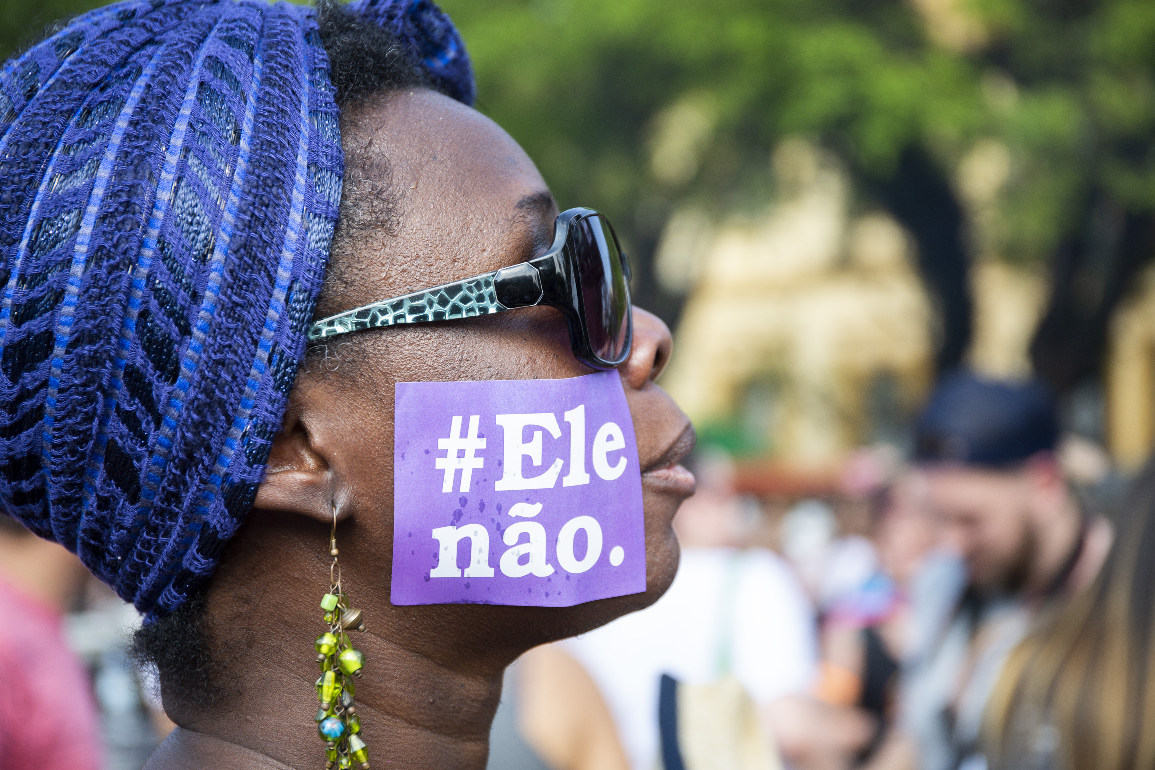 Demonstration against presidential candidate Jair Bolsonaro in Porto Alegre, Brazil. 29 September 2018. By Caco Argemi CPERS / Sindicato